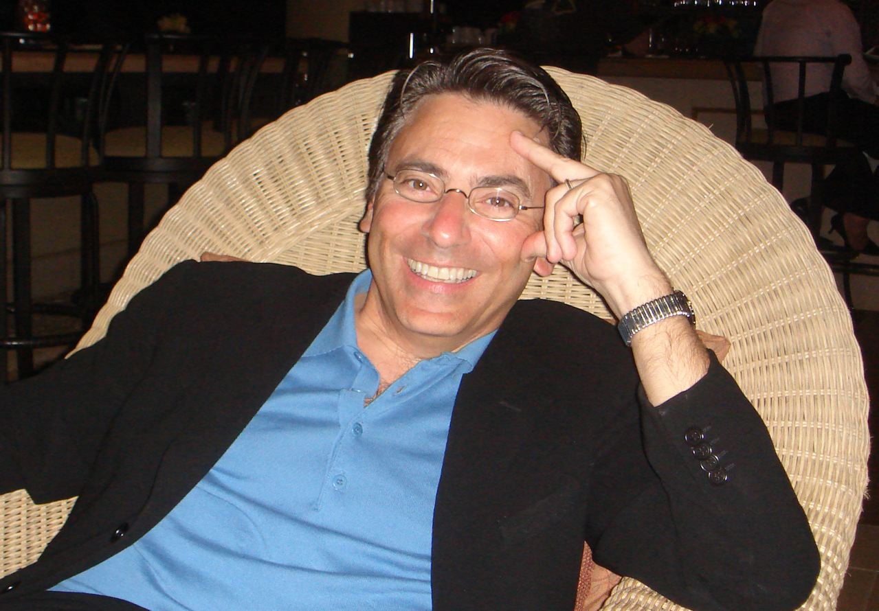 American voice actor Joe Cipriano.